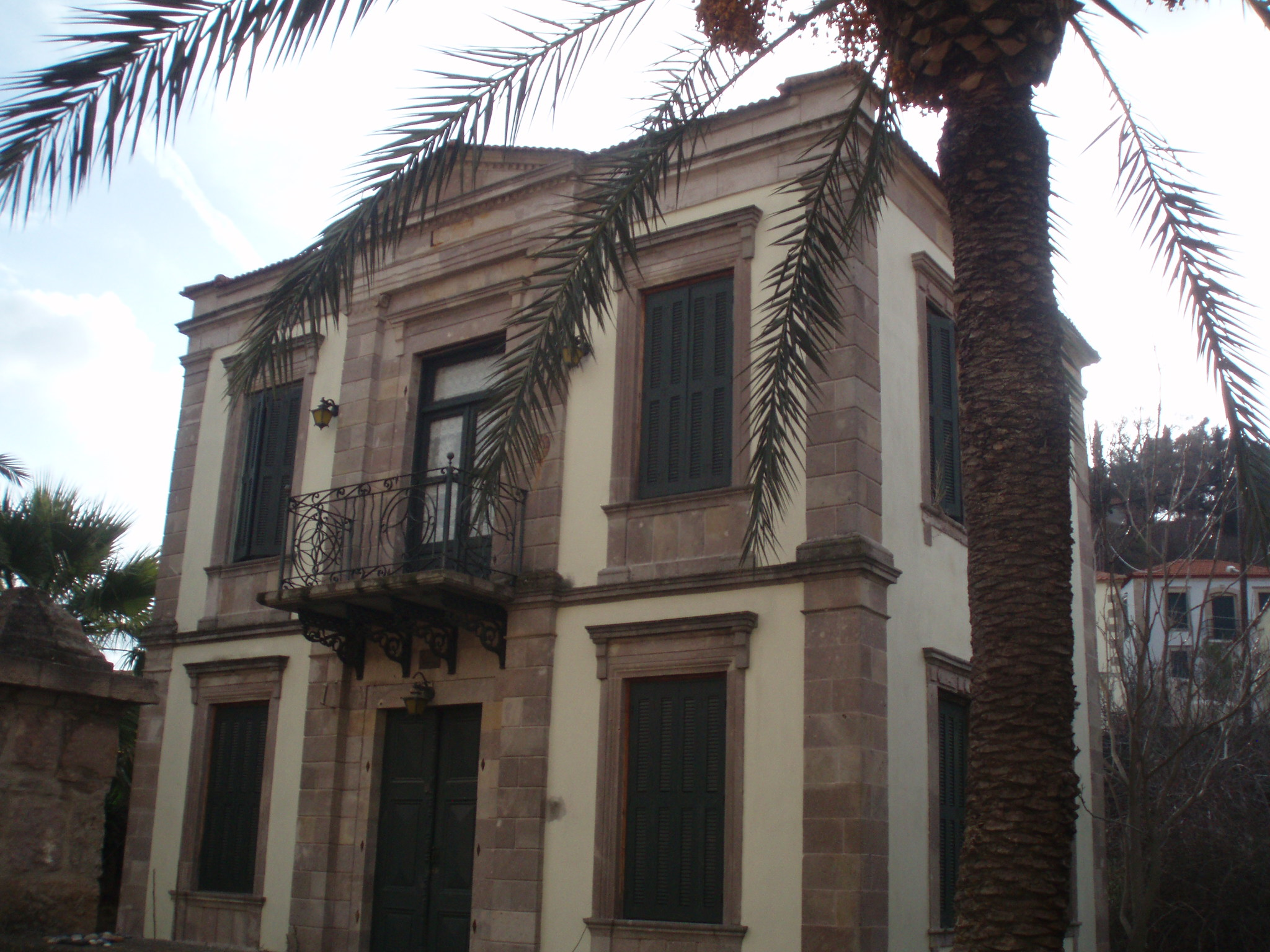 Traditional house in the center of Polichnitos build from local volcanic stone of Lesbos.